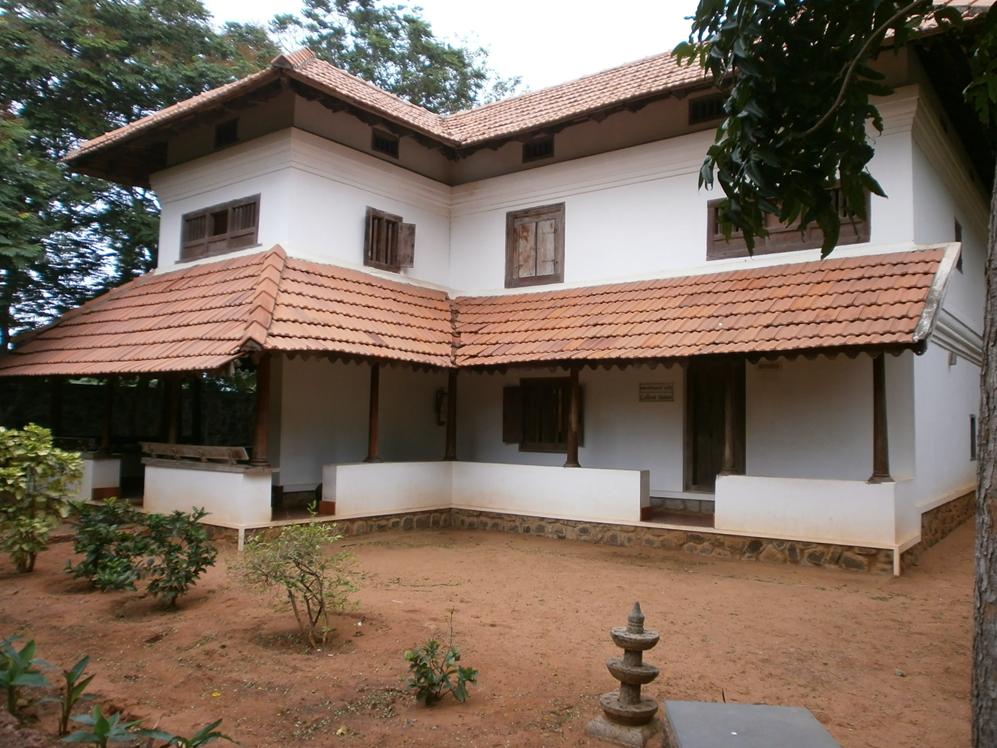 Dakshina-Chitra-Kerala-House